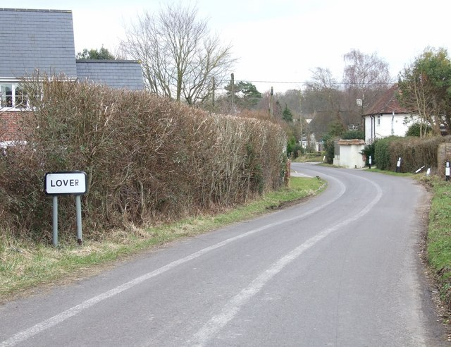 Lover Sign post On the road from Redlynch to Lover.